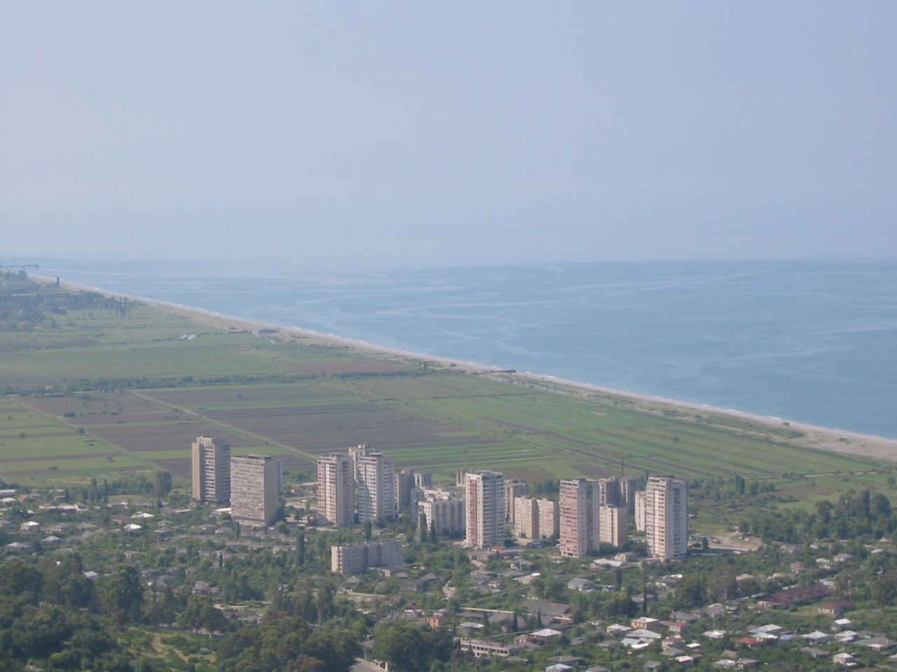 view of New Gagra, Abkhazia.